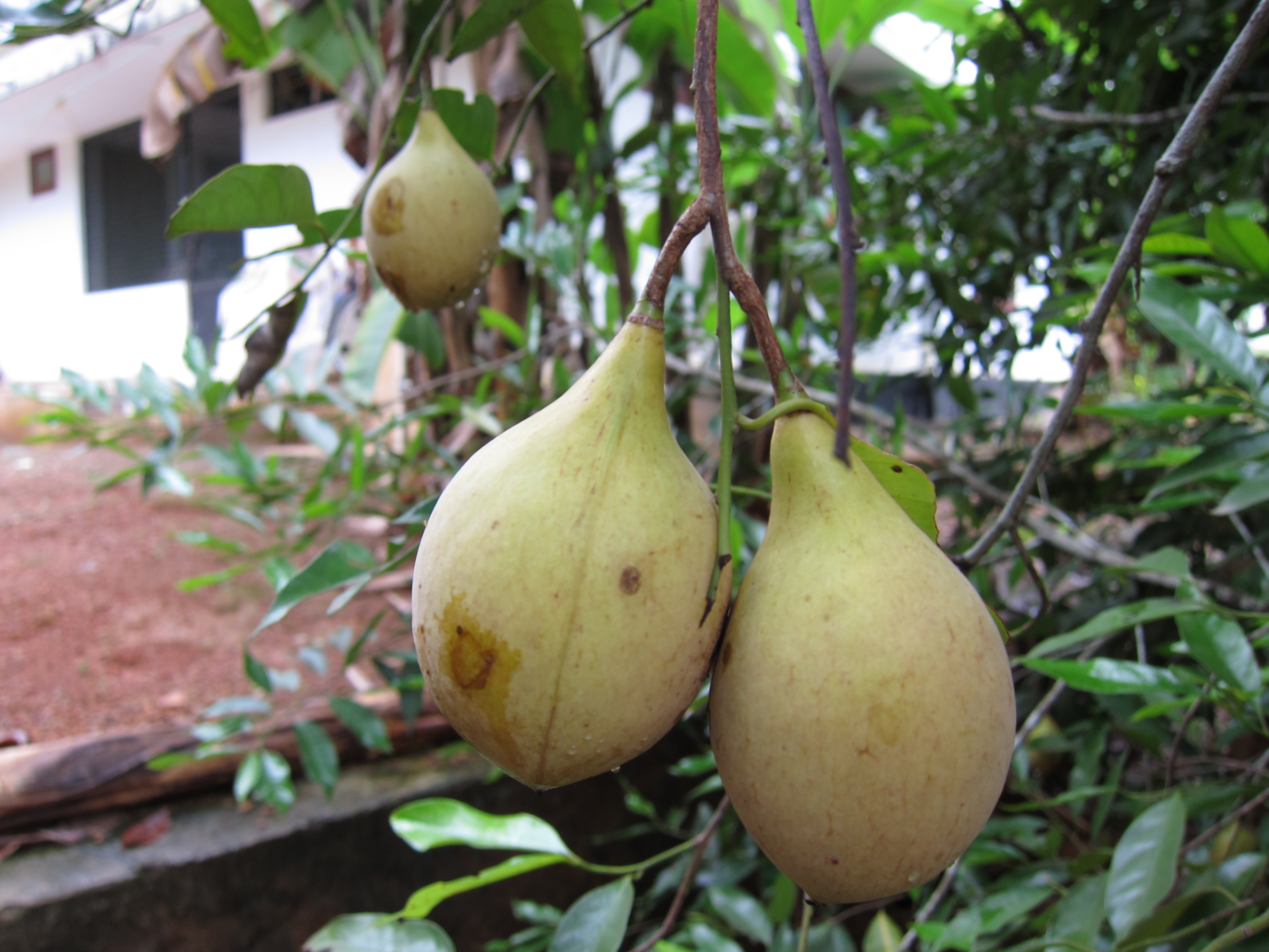 Myristica Fragrans